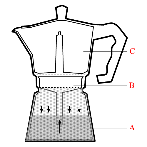 Moka Express coffepot. A:Bottom chamber which contains water. When this is heated, pressure from the steam pushes the water through B and into C B:Basket containing ground coffee C:Collecting chamber for coffee